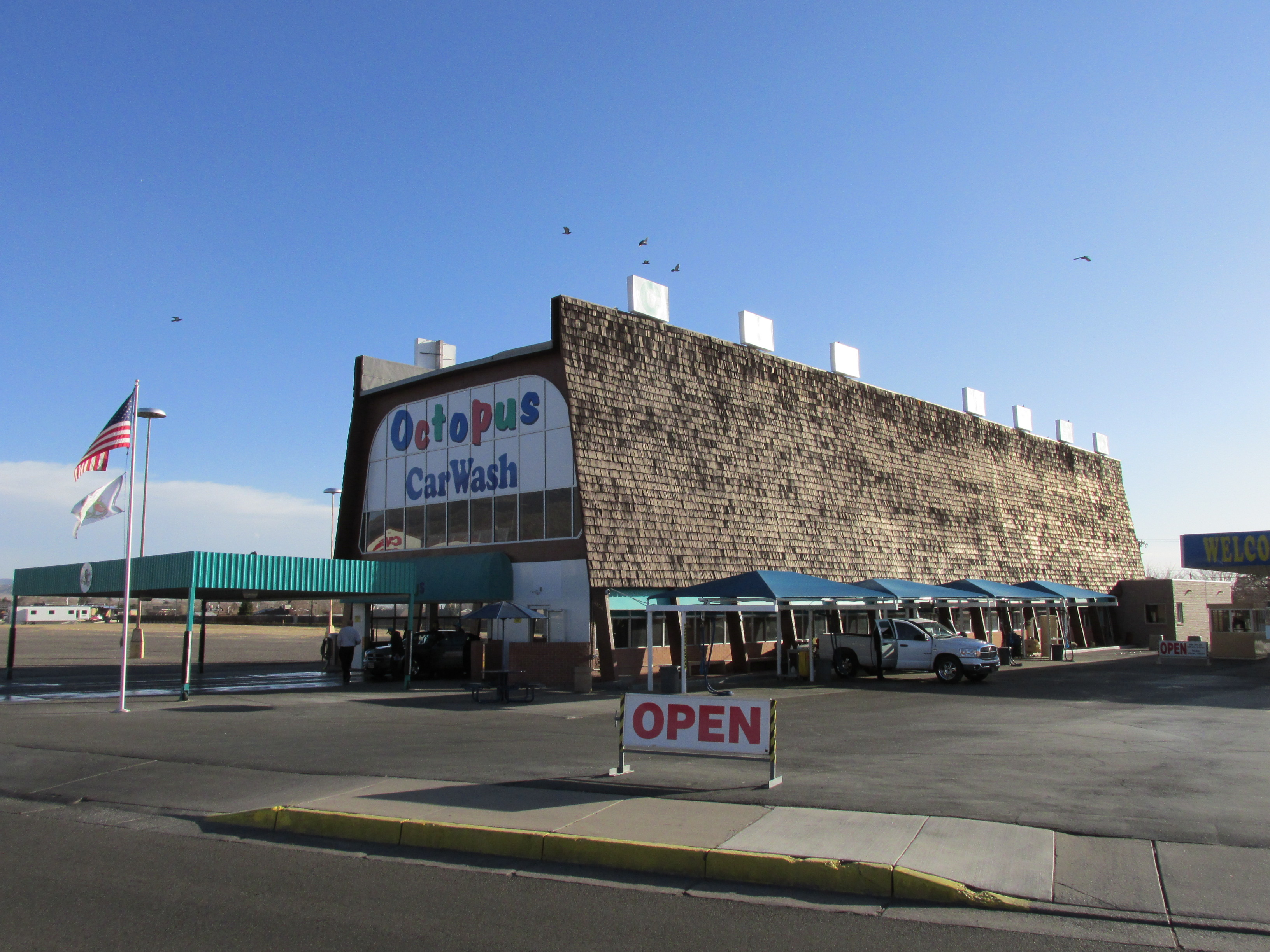 Octopus Car Wash, Albuquerque New Mexico - The A1A Car Wash in "Breaking Bad"